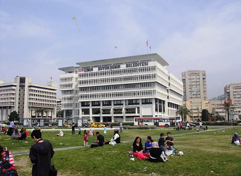 Main building of metropolitan municipality.